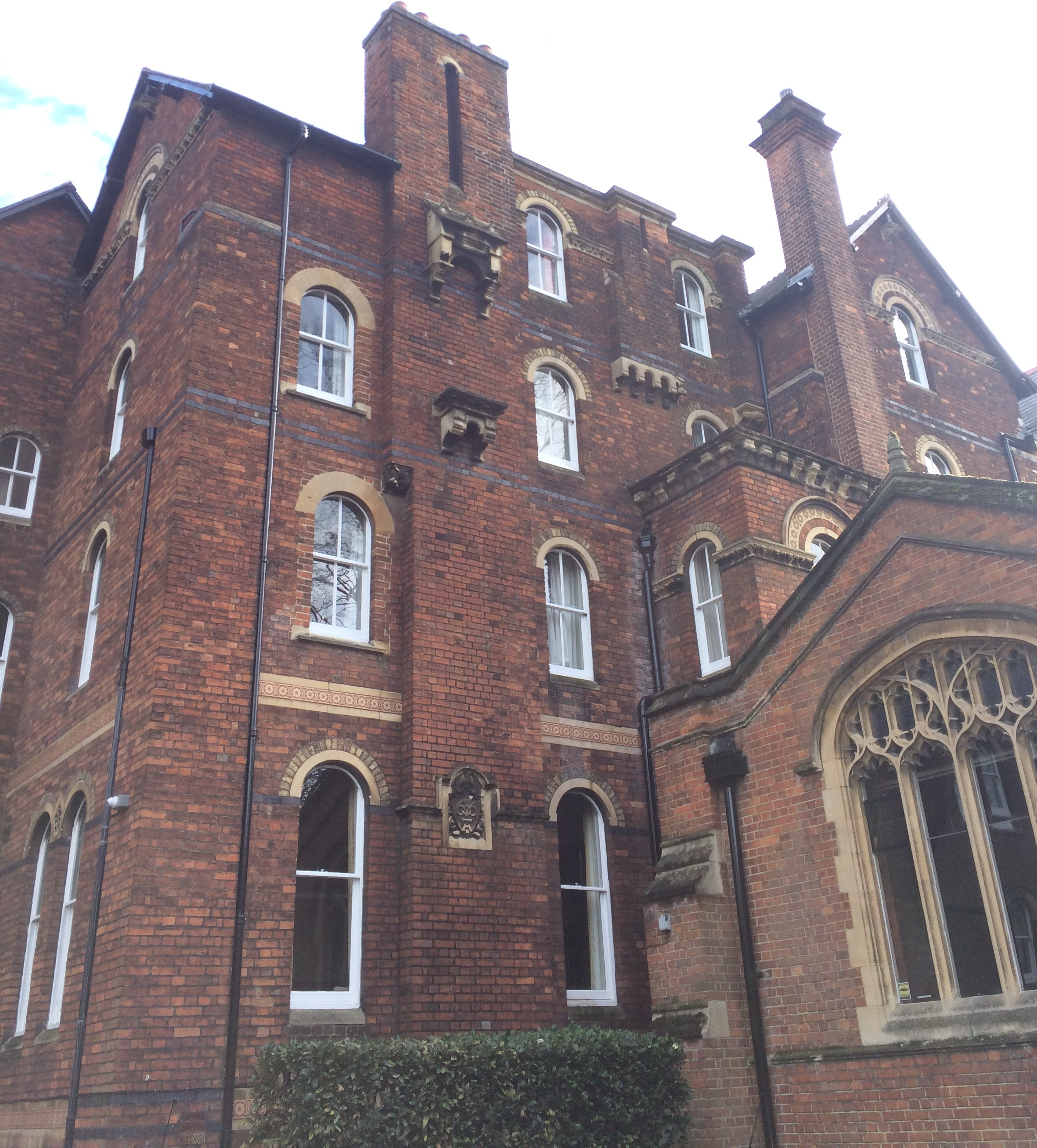 Street facing frontage of the original part of Wycliffe Hall, 54 Banbury Road, "Laleham"